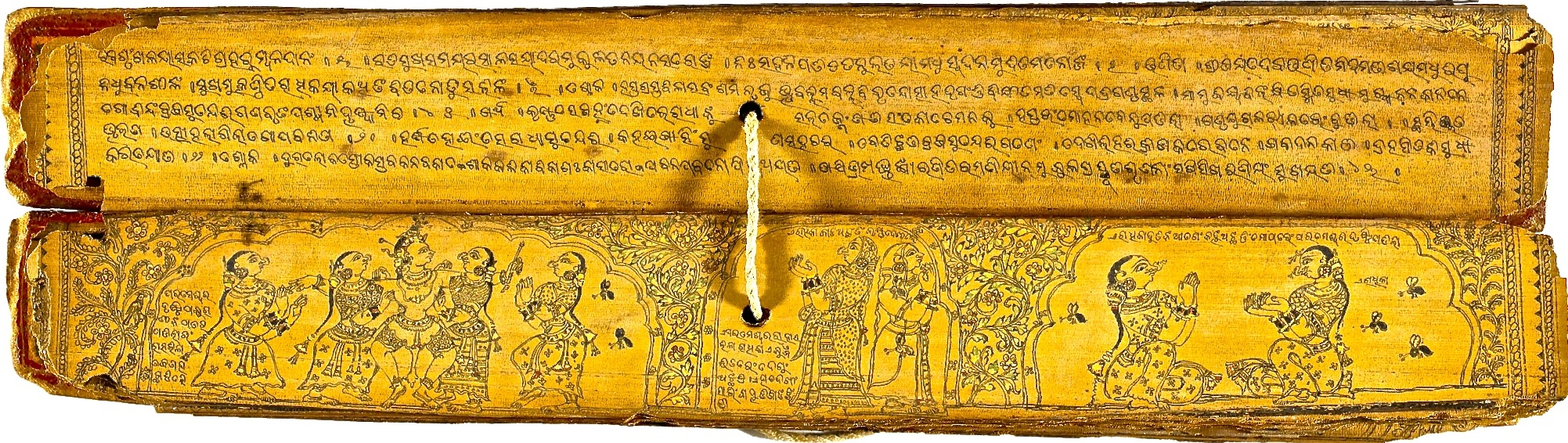 India, Odisha (Orissa), early 18th century Manuscripts Ink and pigment on palm leaf; wood covers with paint From the Nasli and Alice Heeramaneck Collection, Museum Associates Purchase (M.71.1.33) South and Southeast Asian Art